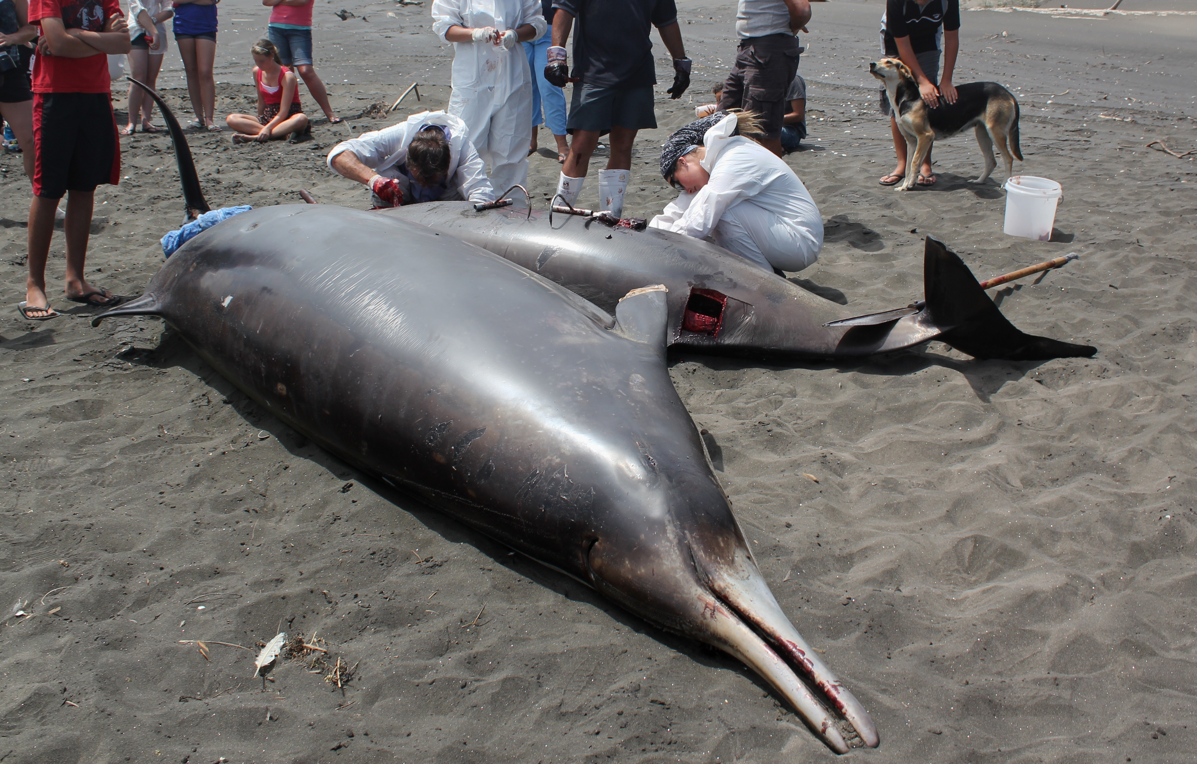 Surrounded by onlookers, university researchers conduct an autopsy on a female beaked whale, probably a Gray's beaked whale, stranded on Sunset Beach, Port Waikato, New Zealand. Another stranded whale lies in front.